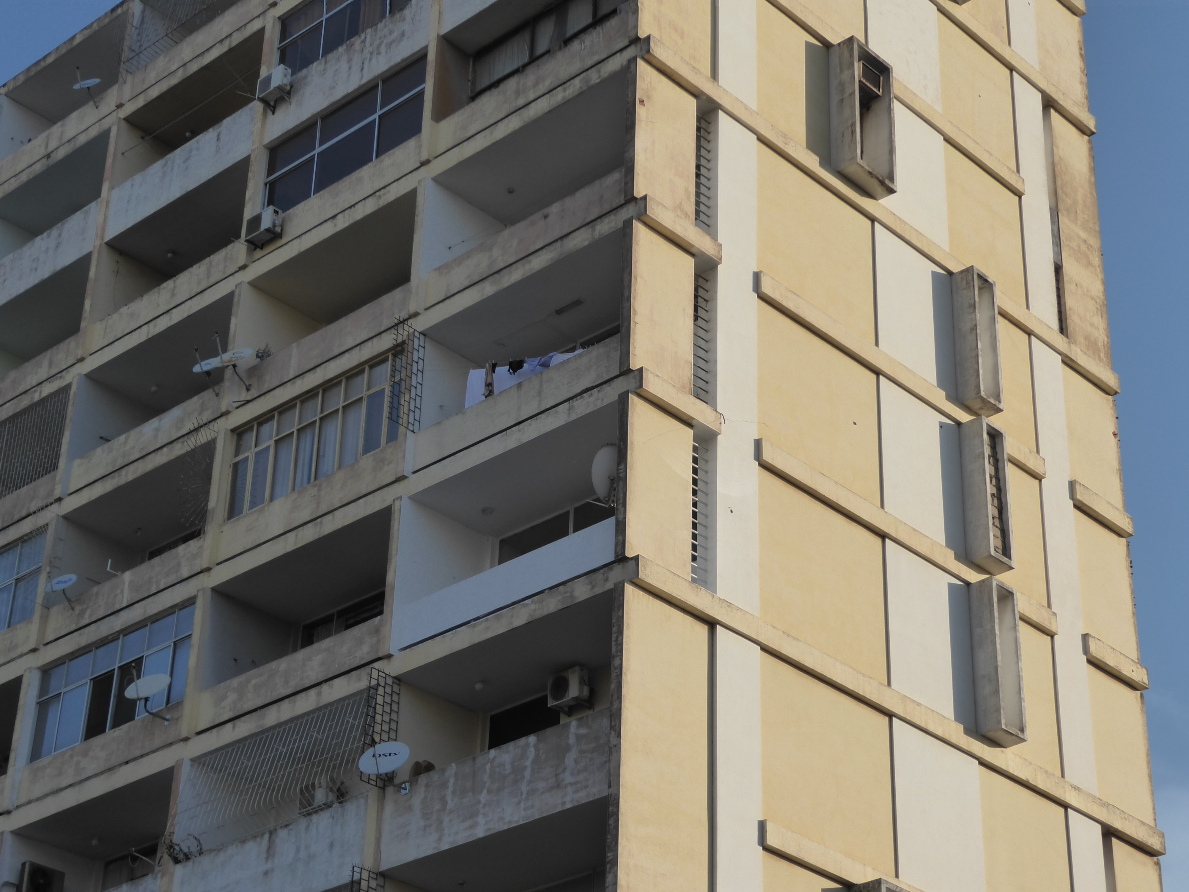 Detail of the Tonelli building in Maputo, Mozambique